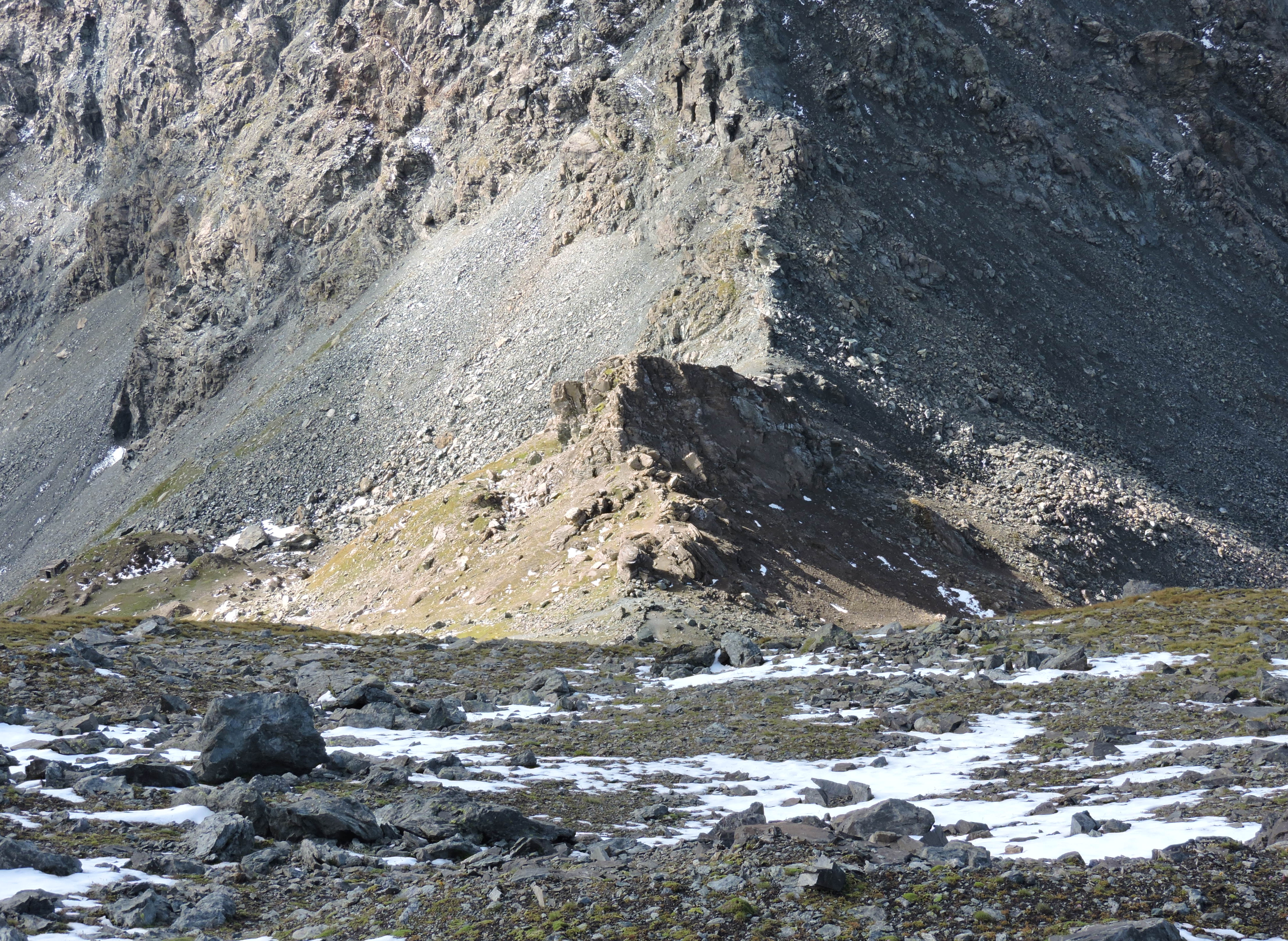 Col d'Olen (Pennine Alps, Italy)